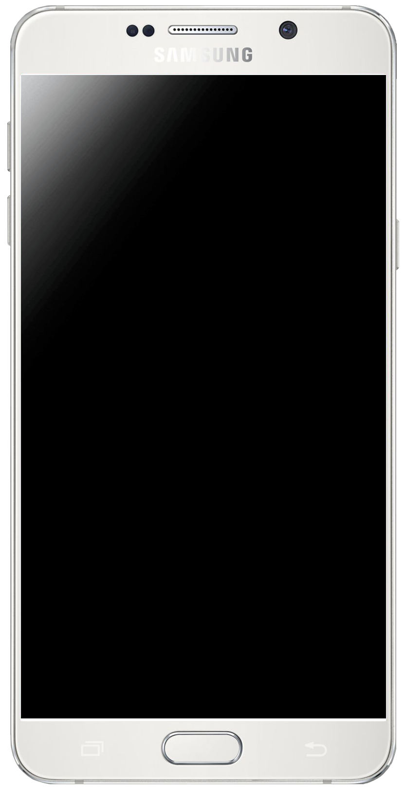 Samsung Galaxy Note 5 render